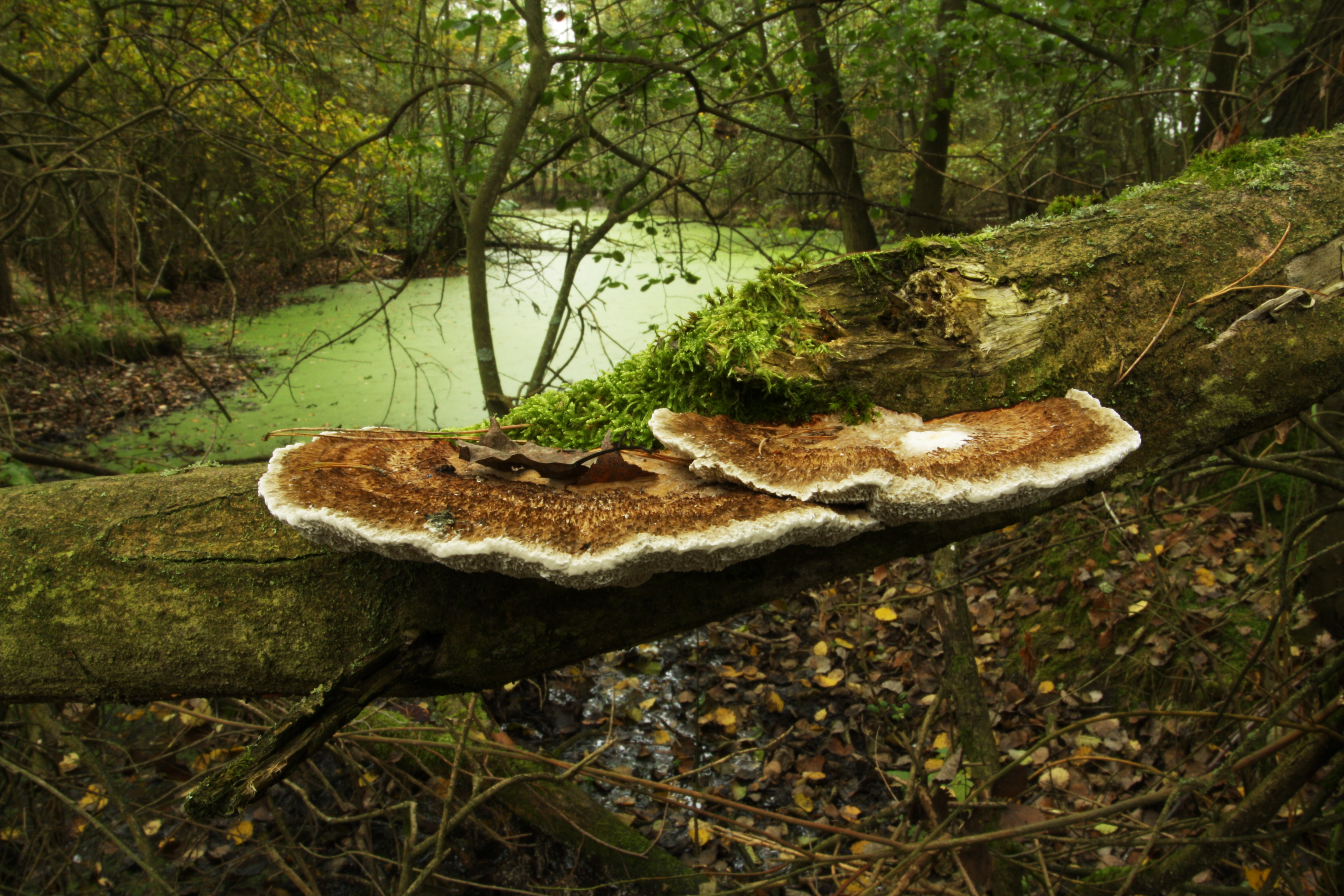 Natural monument Pamětník in Hradec Králové District, Czech Republic - Google Maps - Google Earth